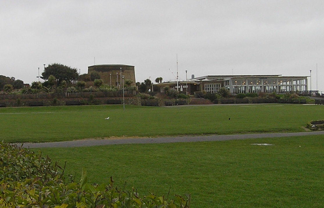 source author harveyqs